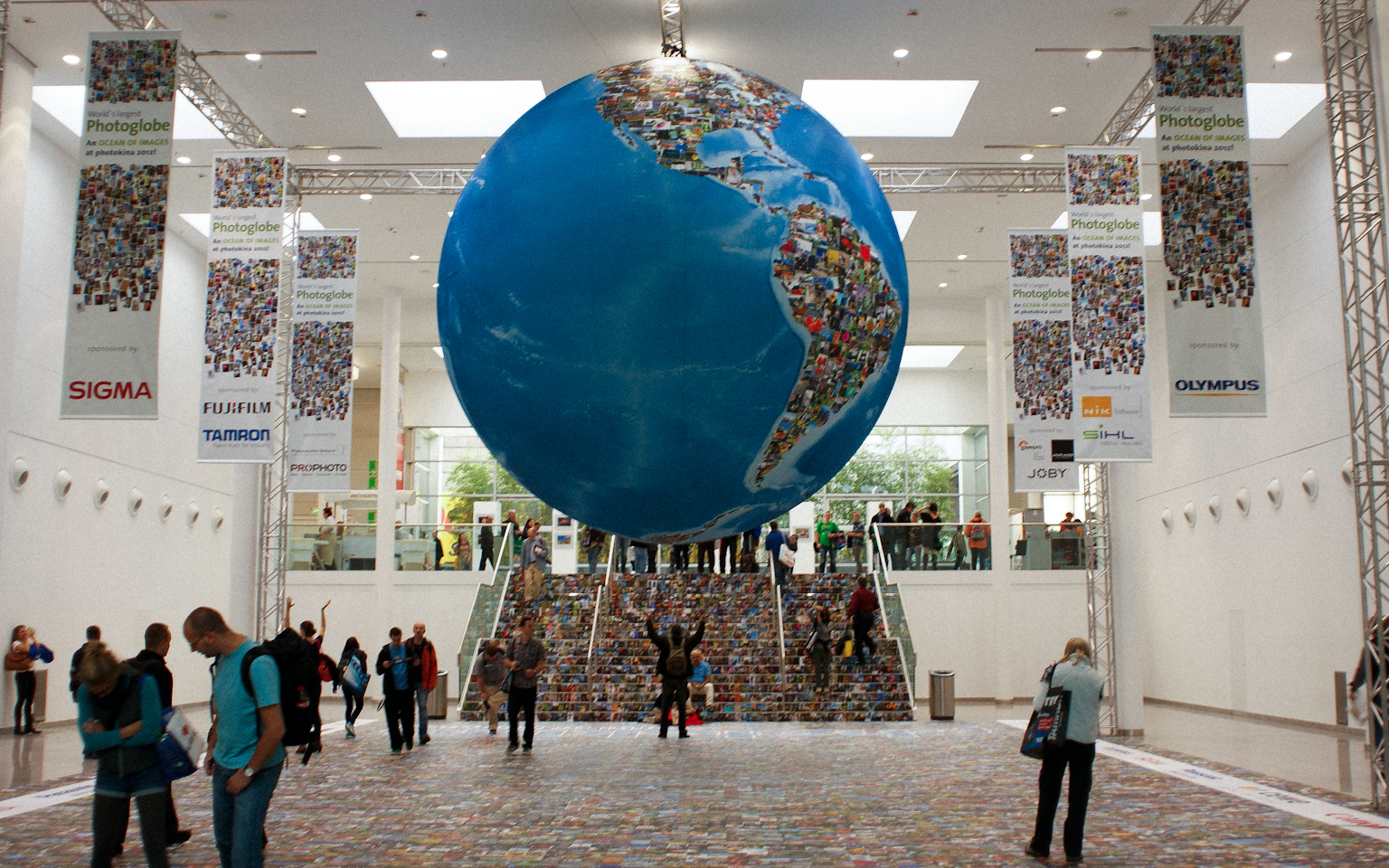 Photokina 2012, Cologne